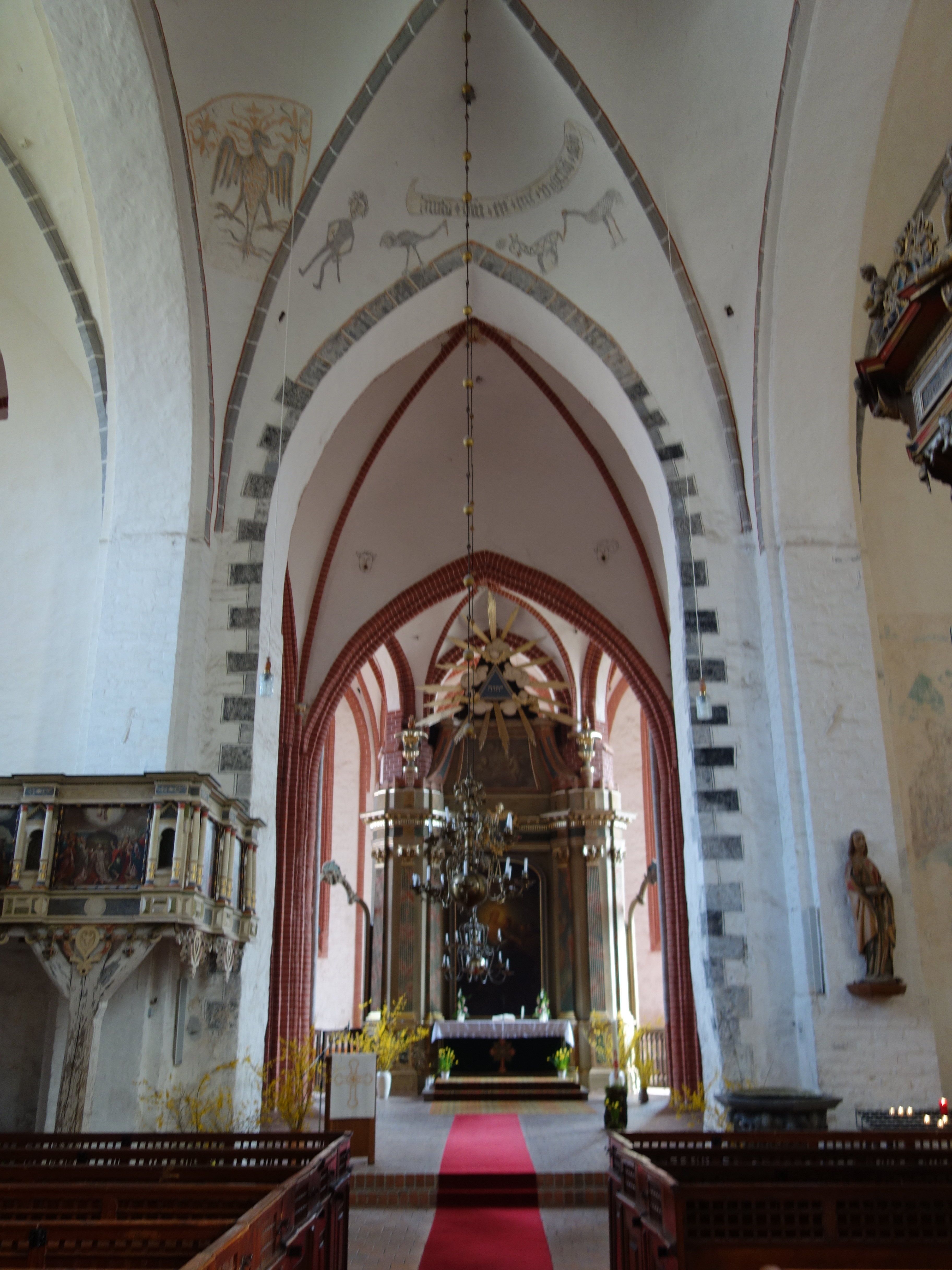 Eastern interior of main vessel of church St. Peter and Paul, Wusterhausen municipality, Ostprignitz-Ruppin district, Brandenburg state, Germany